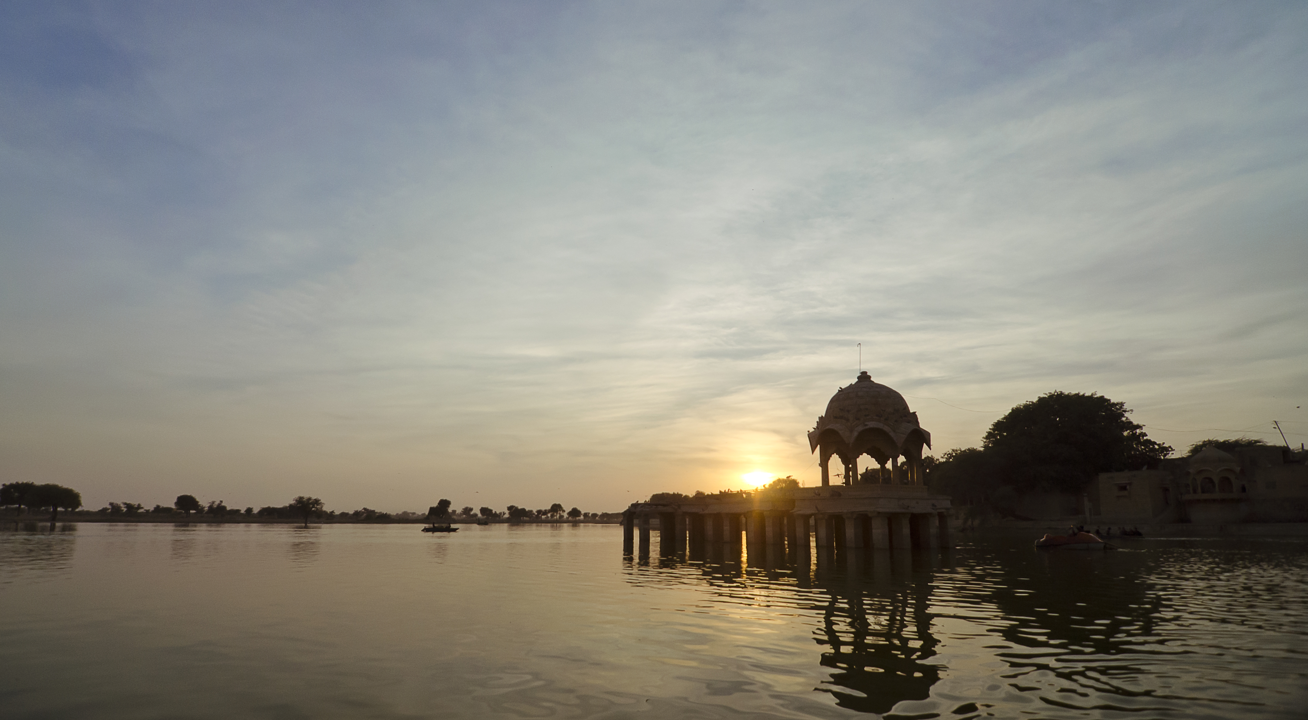 From a boat.